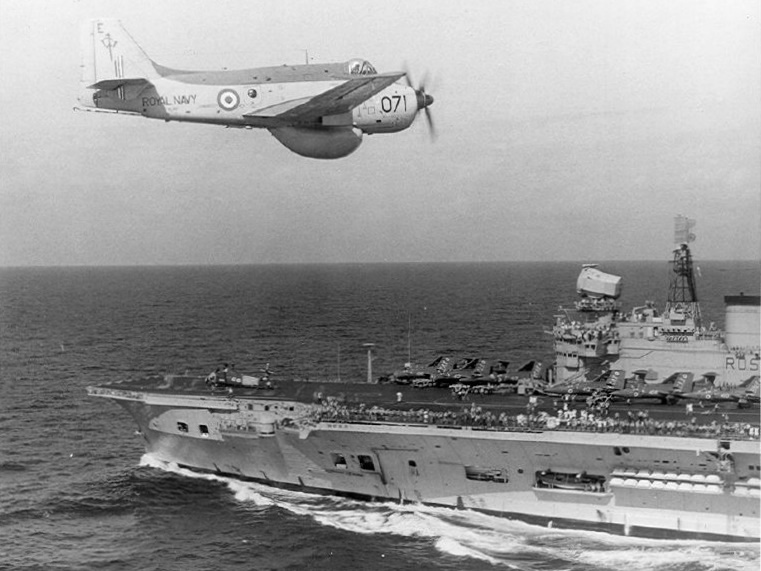 Fairey Gannet AEW Mk 3 of 849 Naval Air Squadron D Flight based aboard H.M.S Eagle of Fleet Air Arm overflys HMS Eagle early 1970's